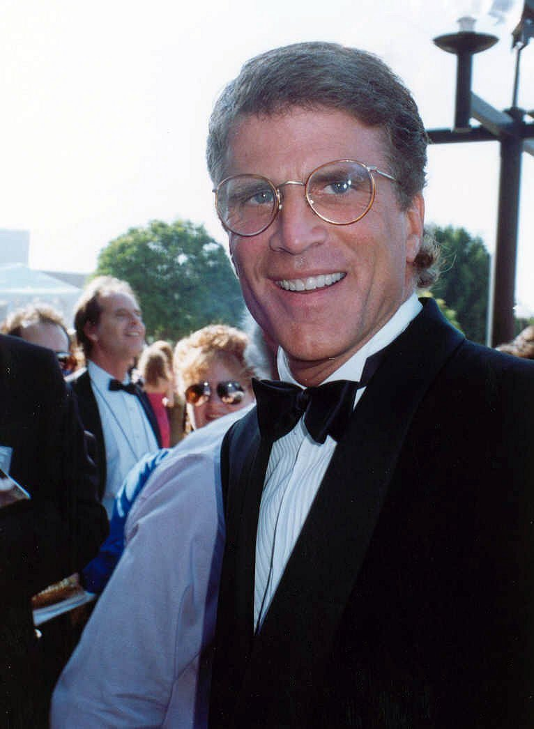 Ted Danson at the 42nd Emmy Awards - Sept. 1990. Located at the Pasadena Civic Auditorium.